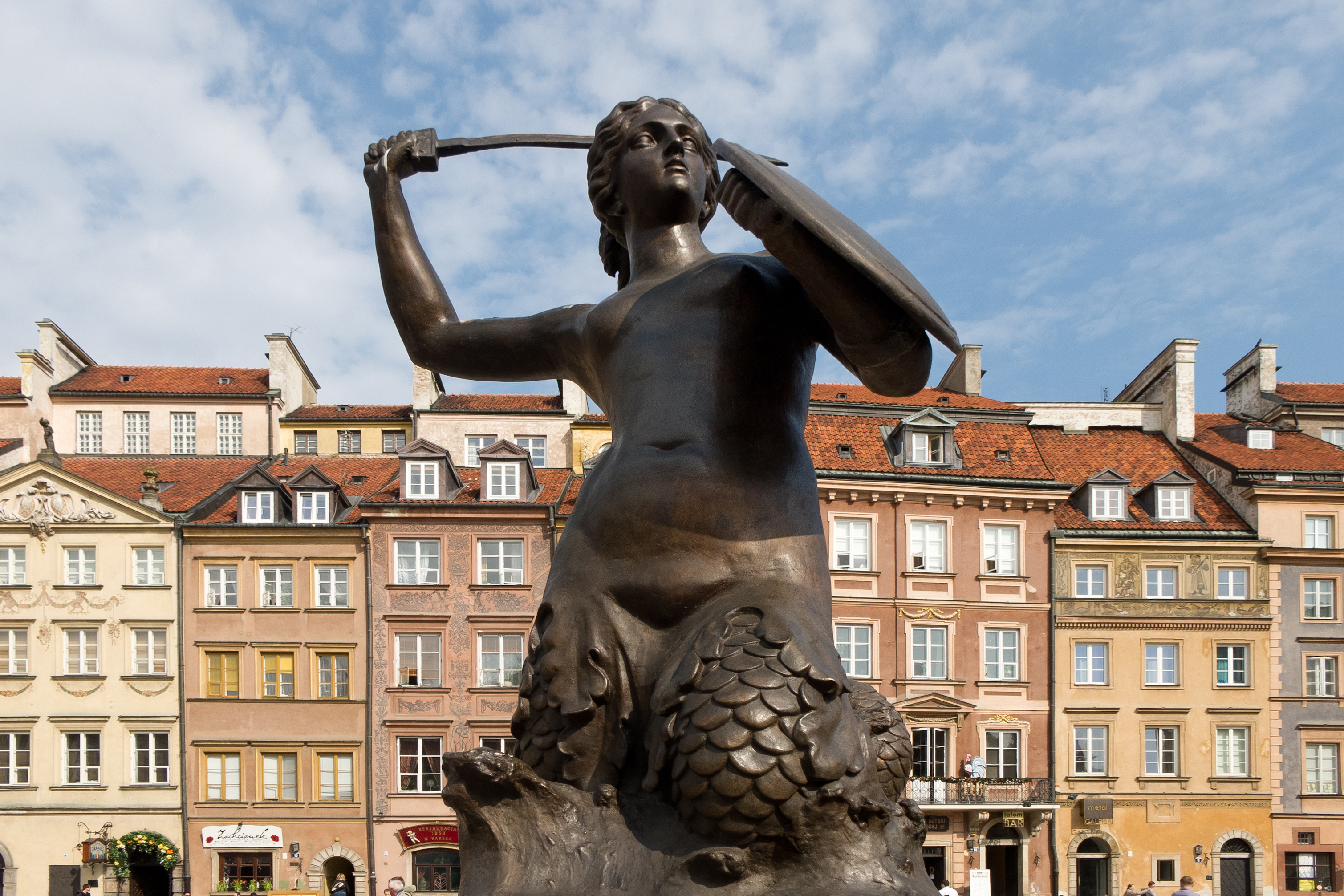 Mermaid at the centre of the Old Town Market Square, Warsaw, Poland.